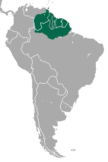 Guyanan Red Howler (Alouatta macconnelli) range